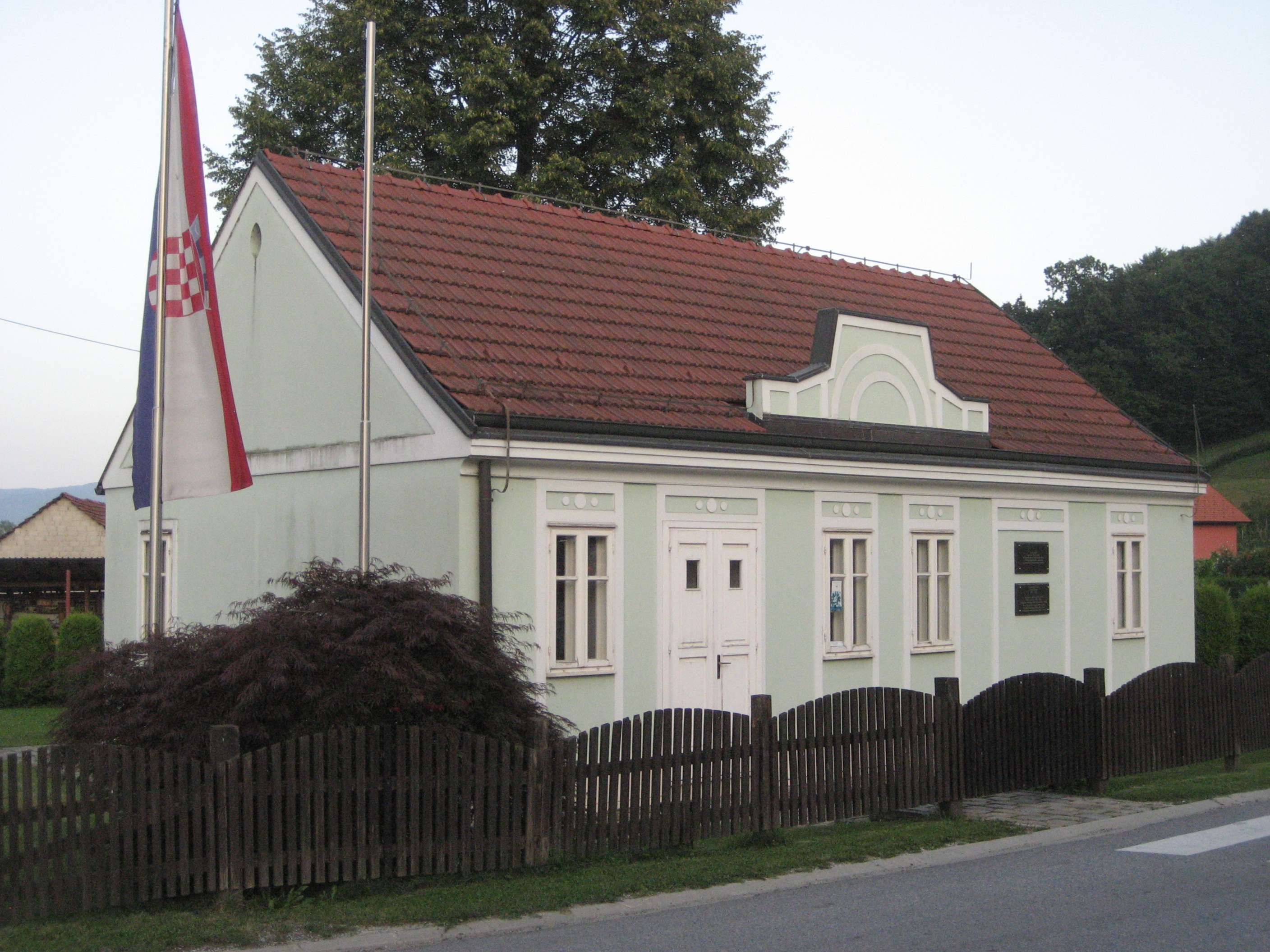 Birth house of dr. Franjo Tuđman